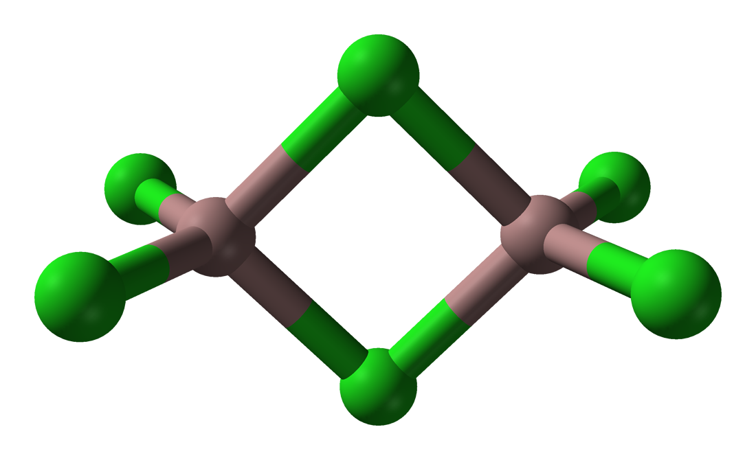 Ball-and-stick model of the dimer of gallium trichloride, GaCl3, i.e. the Ga2Cl6 molecule, from the crystal structure. X-ray crystallographic data from Z. Krist. (2004) 219, 88-92.